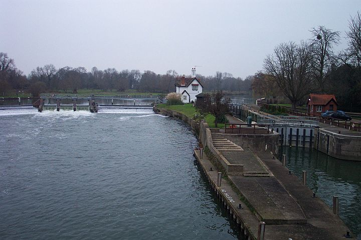 Goring Lock viewed from Goring and Streatley Bridge